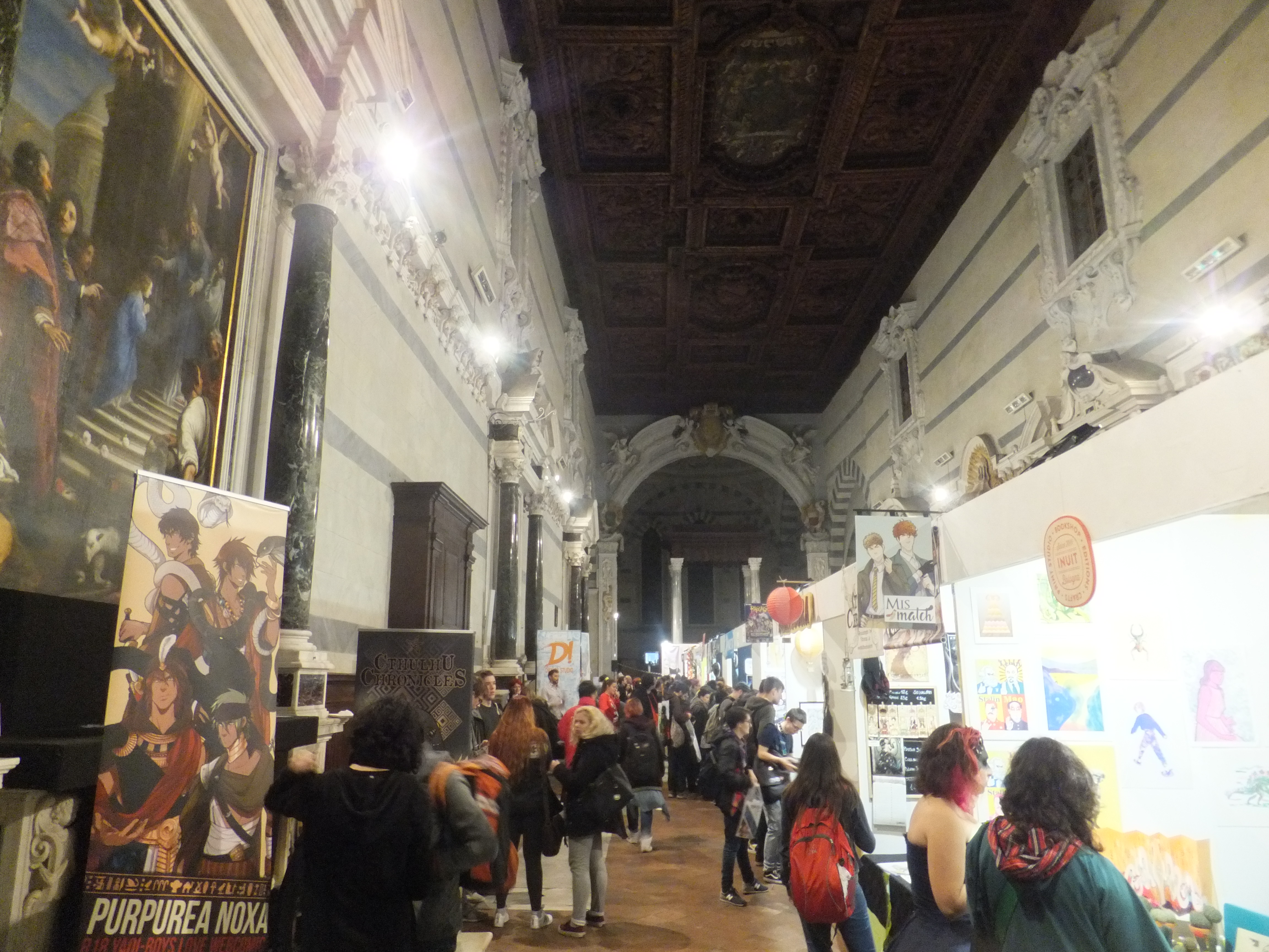 The church of the Santissima Annunziata dei Servi of Lucca (Tuscany, Italy), hosting the "self area" during Lucca Comics 2017